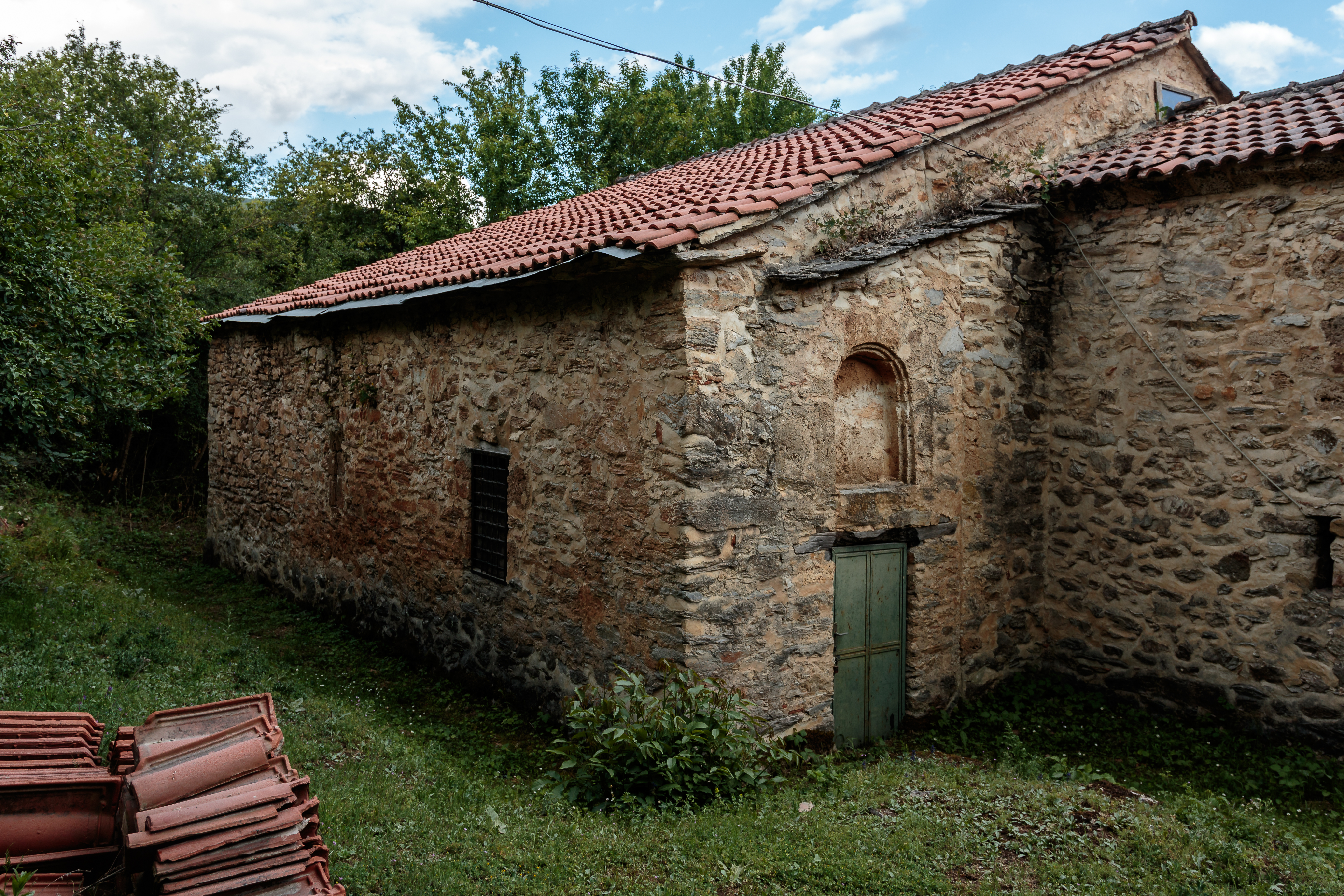 St. Nicholas Toplički Church near the village of Sloeštica, Železnik, Macedonia.